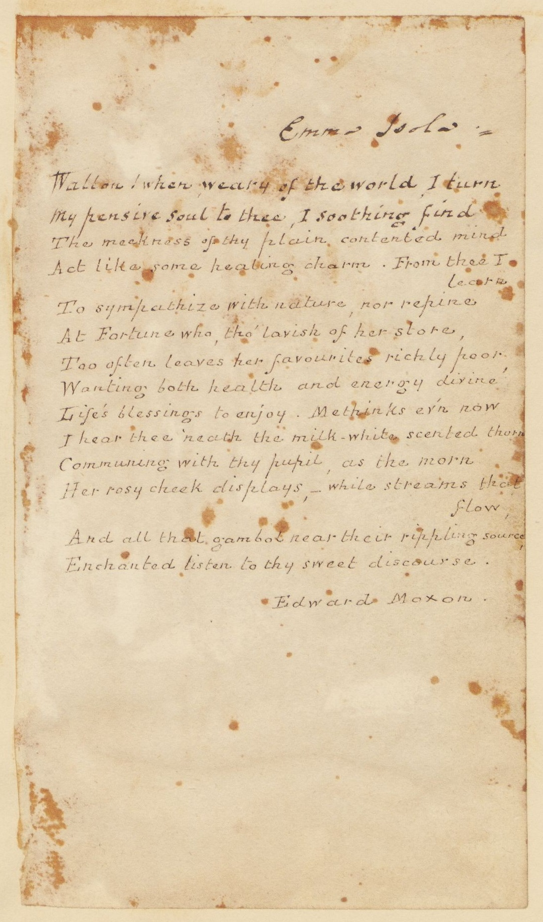 Manuscript of a poem by Edward Moxon (1801-1858), undated. From an autograph album compiled by Emma Isola Moxon (1809-1891). MS Eng 601.66 (29), Houghton Library, Harvard University